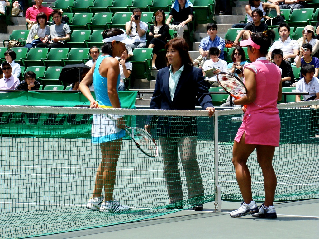 An umpire informing Kimiko Date and another Japanese player of the rules before a match at the 2008 Tokyo Ariake International Ladies Open